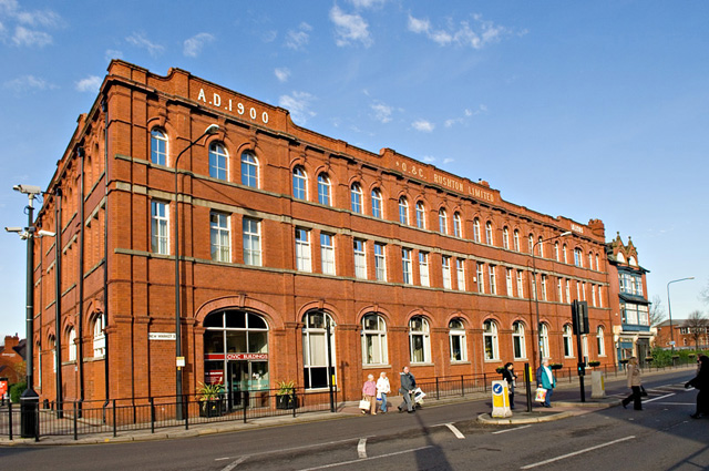 Rushton Building Wigan Currently "Civic Buildings" occupied by Wigan Council's Environmental Services Department.